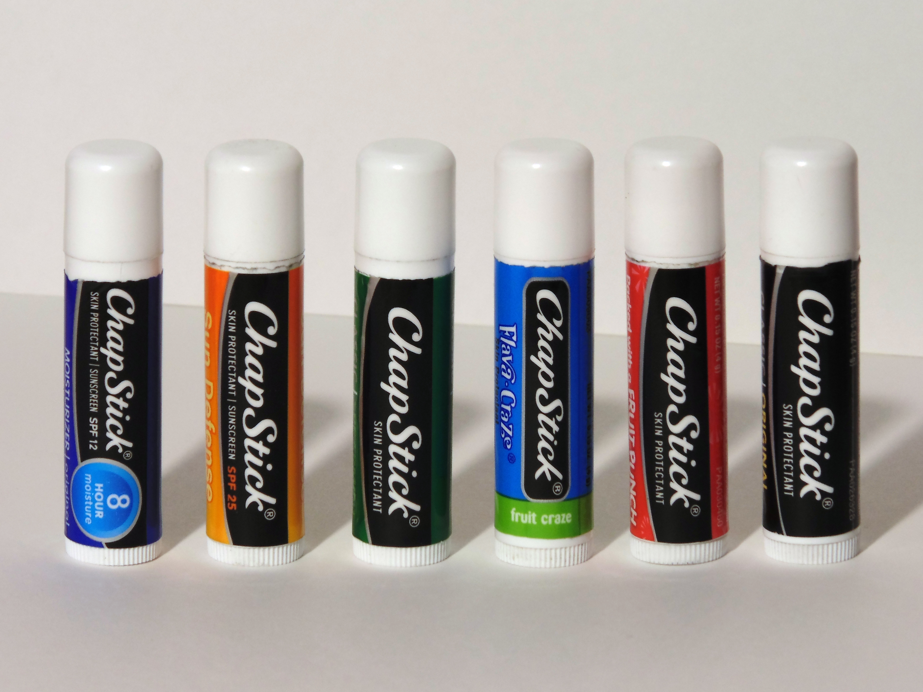 El báslsamo labial ChapStick en seis variedades.